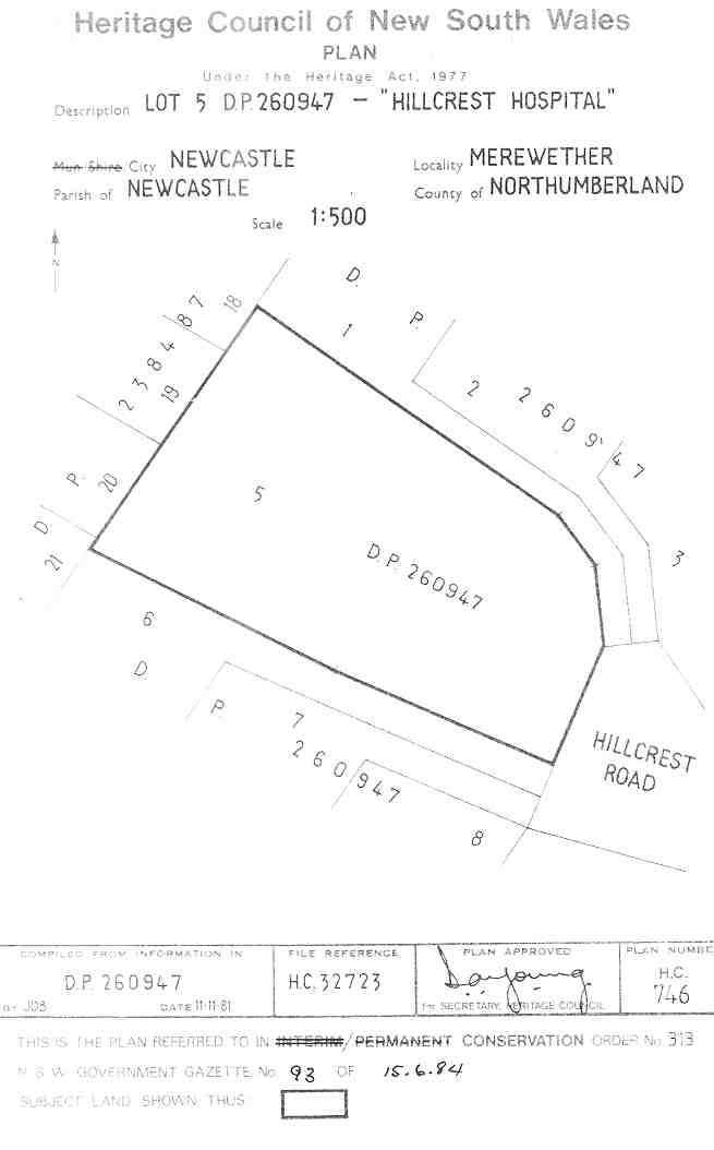 The Ridge, Newcastle: PCO Plan Number 313